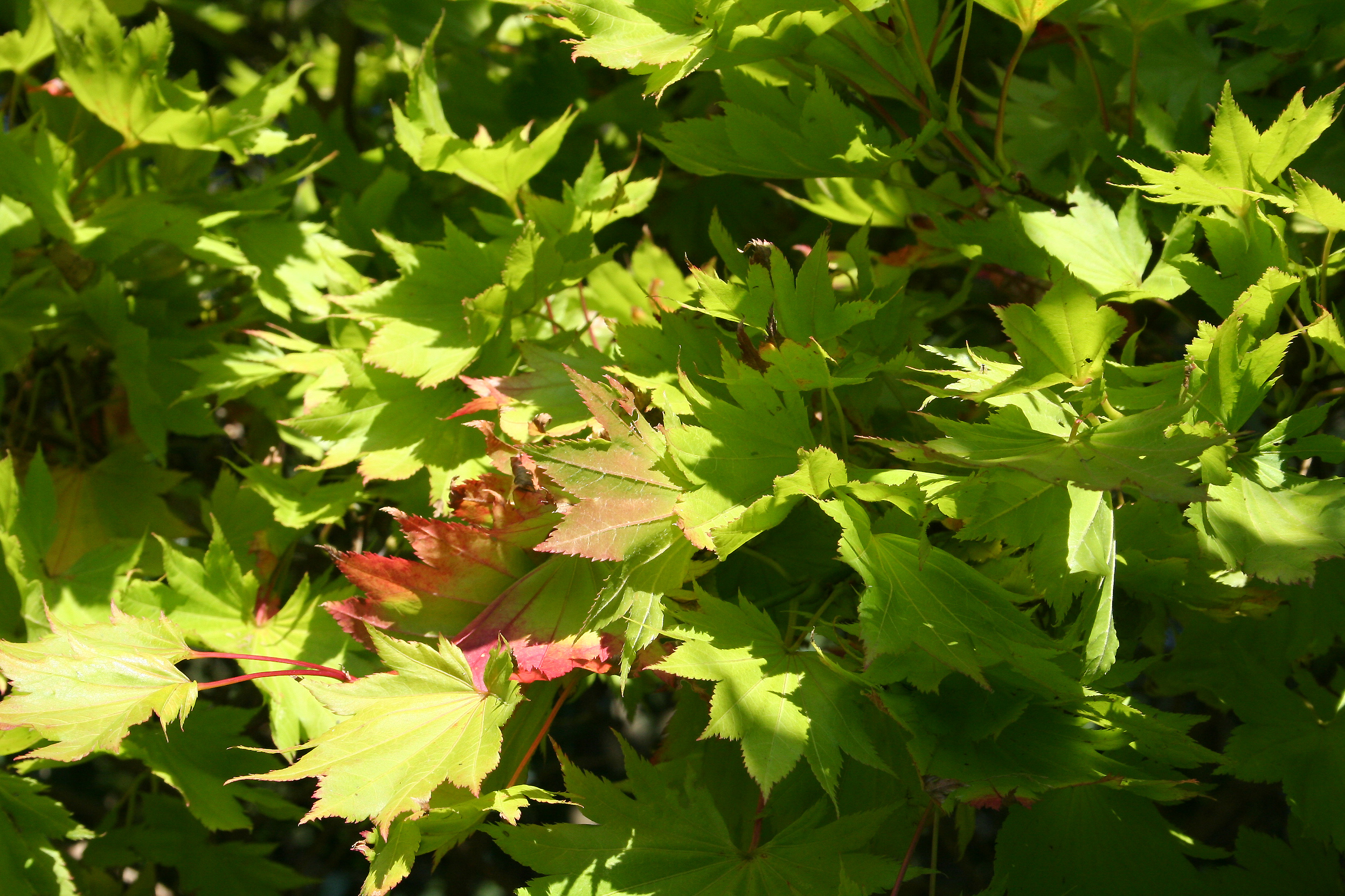 Shirasawa's Maple or Fullmoon Maple - Acer shirasawanum 'Aureum' leaves Planting date : 1965 Particularity : the biggest specimen of Belgium Precise location : Arboretum Robert Lenoir (S48B - 0191) - Rendeux (Belgium). Walon: Fouyes di Plane dol plin.ne lune - Acer shirasawanum 'Aureum' Annéye do plantis' : 1965 Particularitè : li pus gros di Bèljike Place rècta : Arboretum Robert Lenoir (S48B - 0191) - Rindeu (Bèljike).